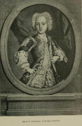 Illustration from PD book, of character playing a role in the "history" of Freemasonry